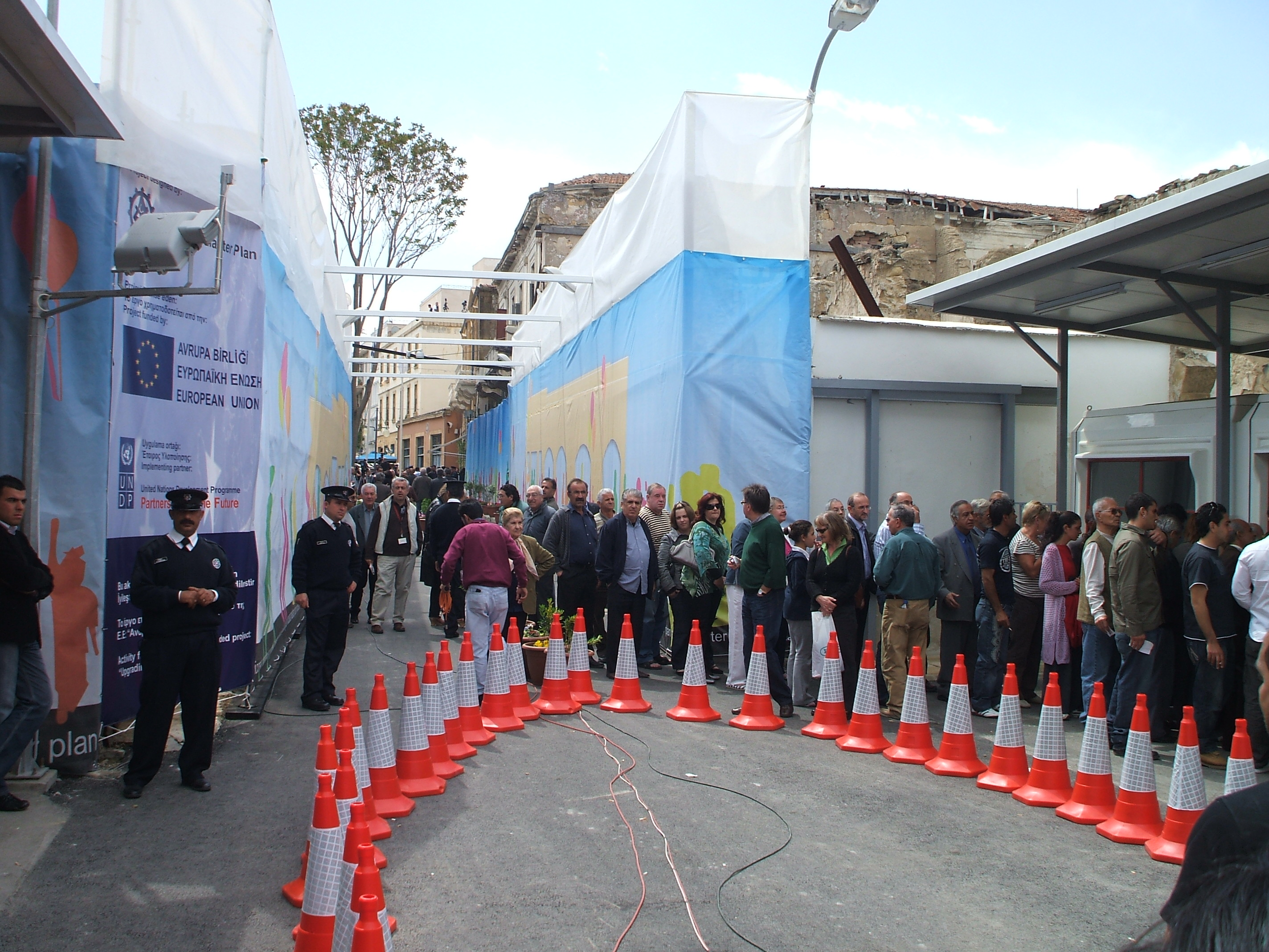 The city of Nicosia, Cyprus, on 3 April 2008, the day when the Green Line at Ledra Street was reopened: People waiting for getting across the border at Ledra Street (right: the way from south to north; left: the way back to the south)